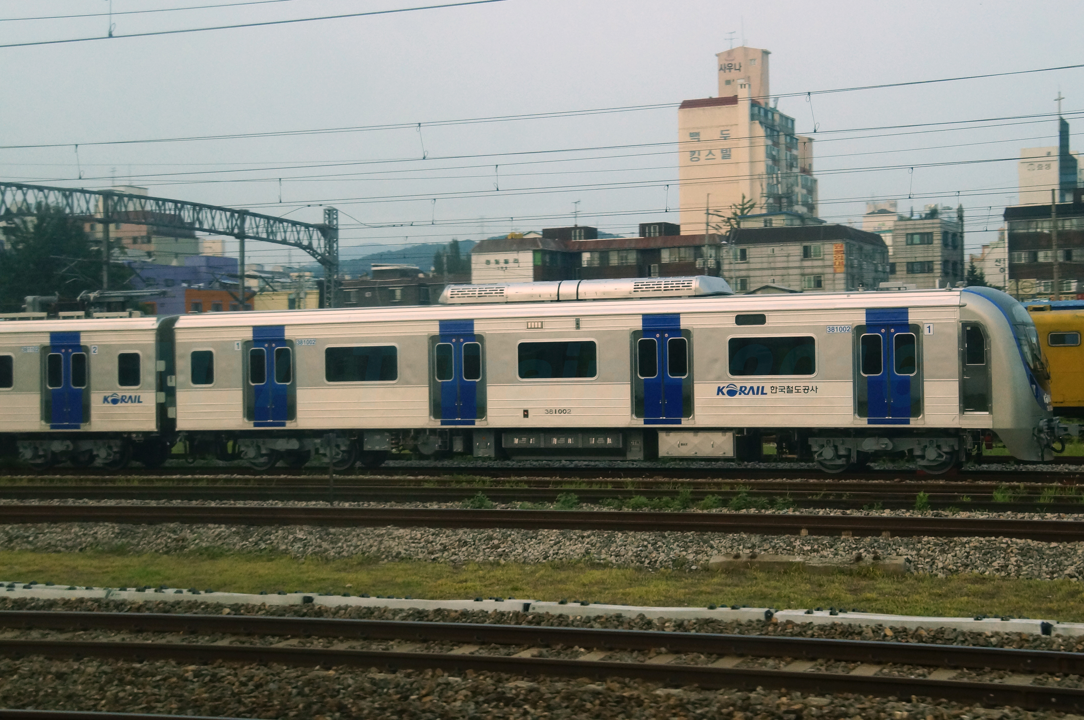 Korail Hyundai Rotem Korail 381000-series 381x02 at Uiwang.